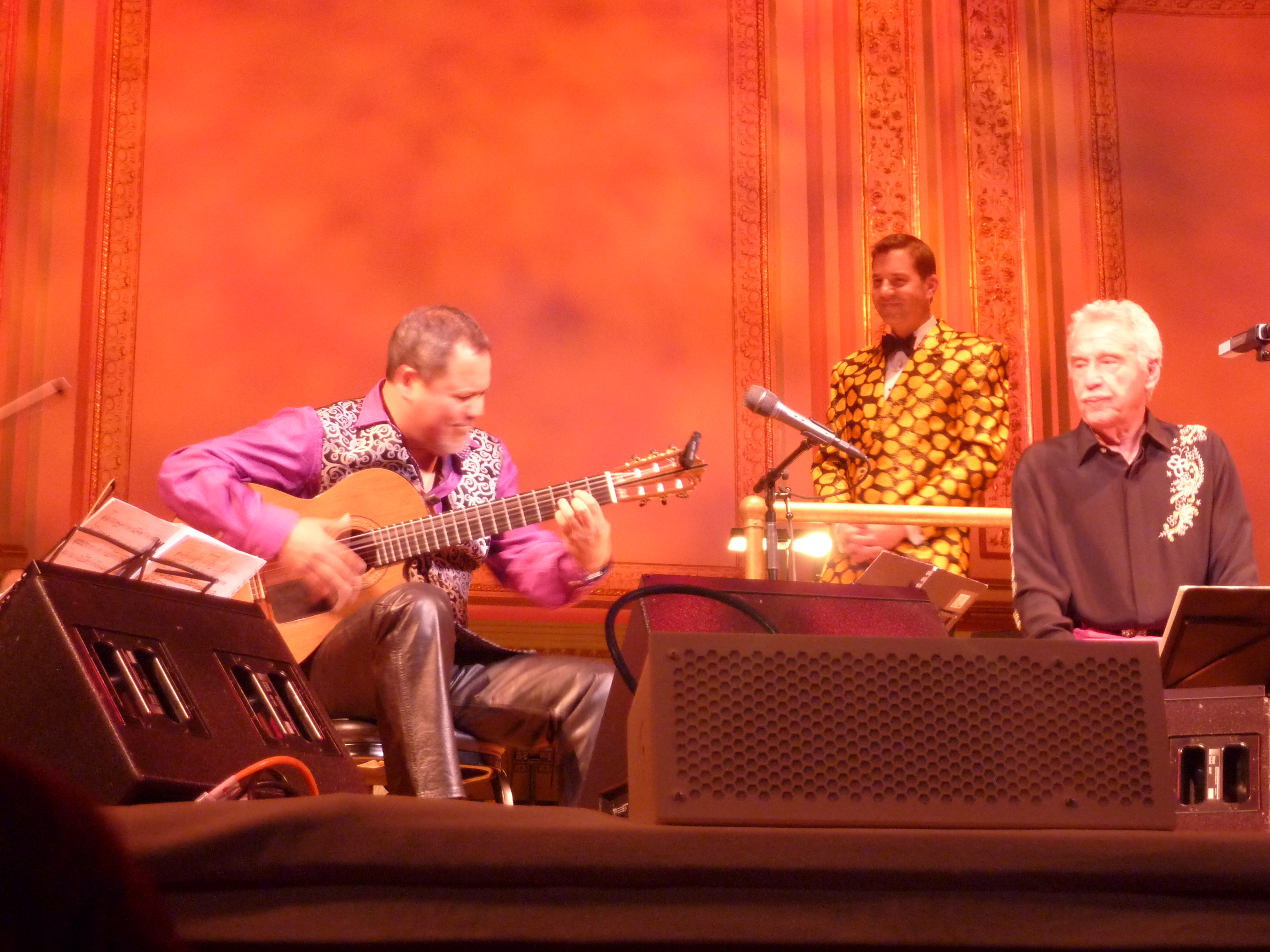 Gil Gutiérrez perfroms live at Carnegie Hall with Doc Severinsen and conductor Steven Reineke of the New York Pops